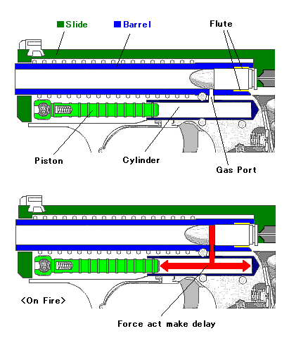 Basic concept of Gas delayed Blowback of H&K P7